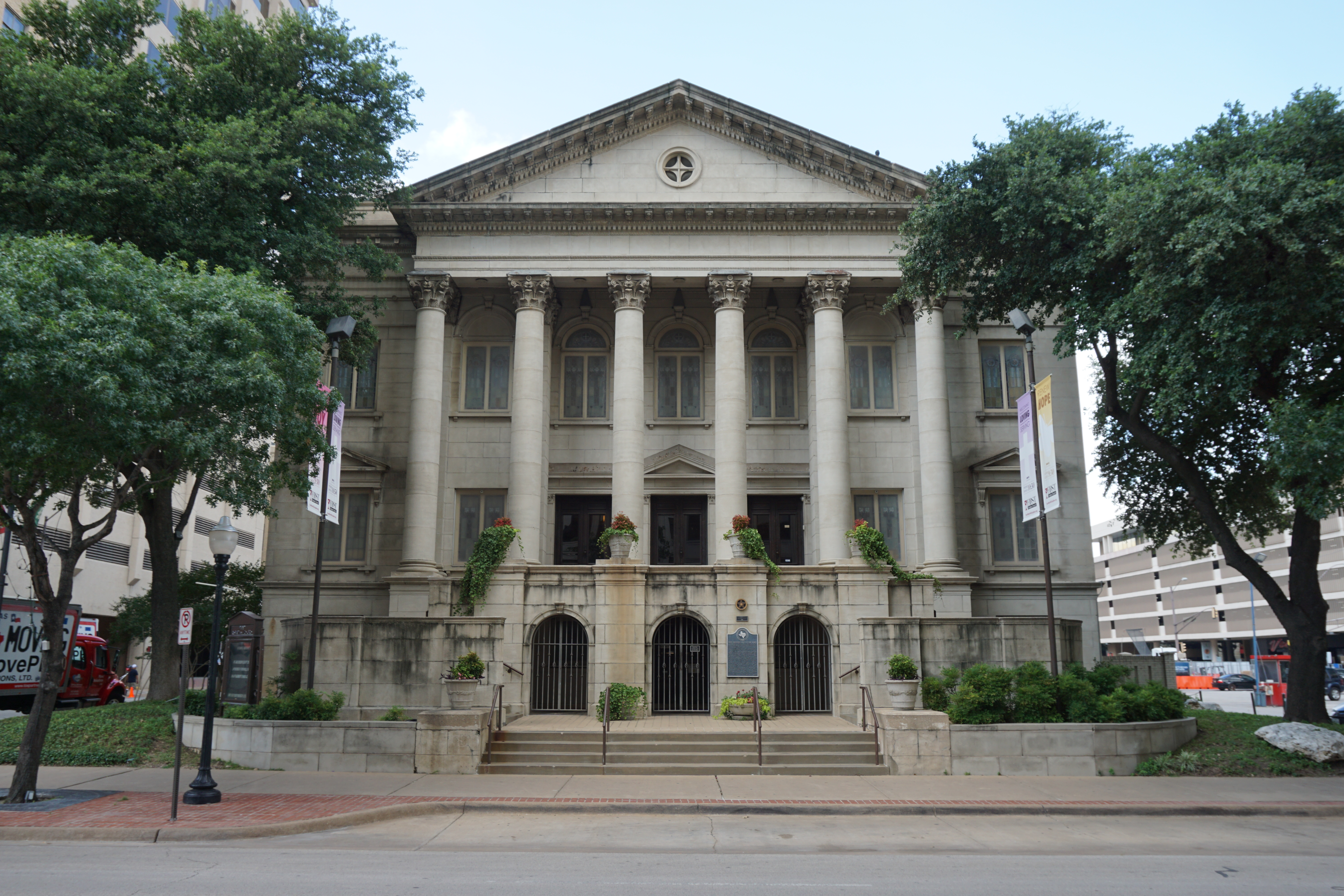 First Christian Church in Fort Worth, Texas (United States).